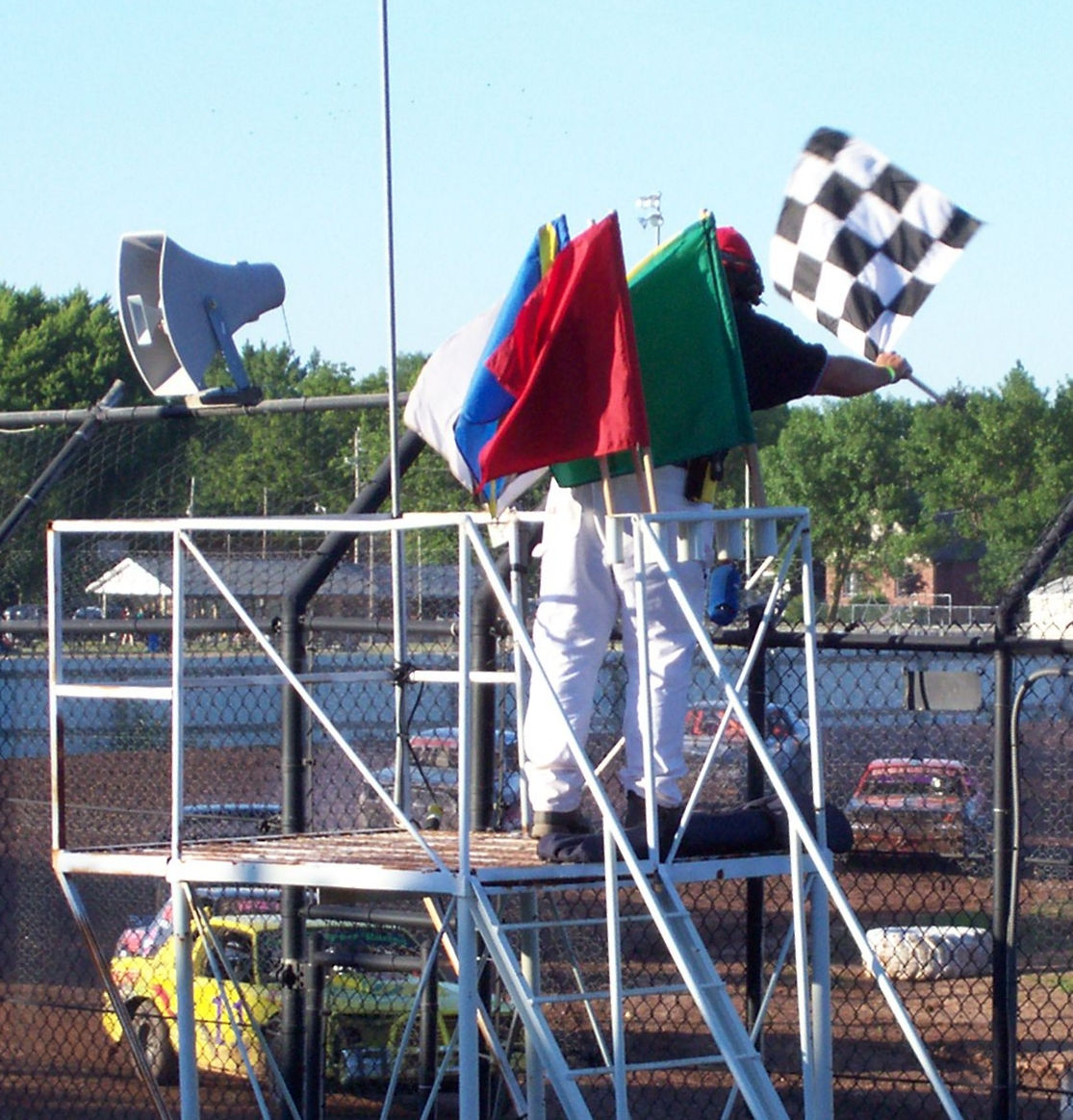 Looking at the flagman displaing the checkered flag at the Calumet County Racing Association stockcar races at the Calumet County, Wisconsin fairgrounds in Chilton, Wisconsin, USA. Note the complete set of racing flags (at least for American stockcar racing). The yellow flag is barely visible.